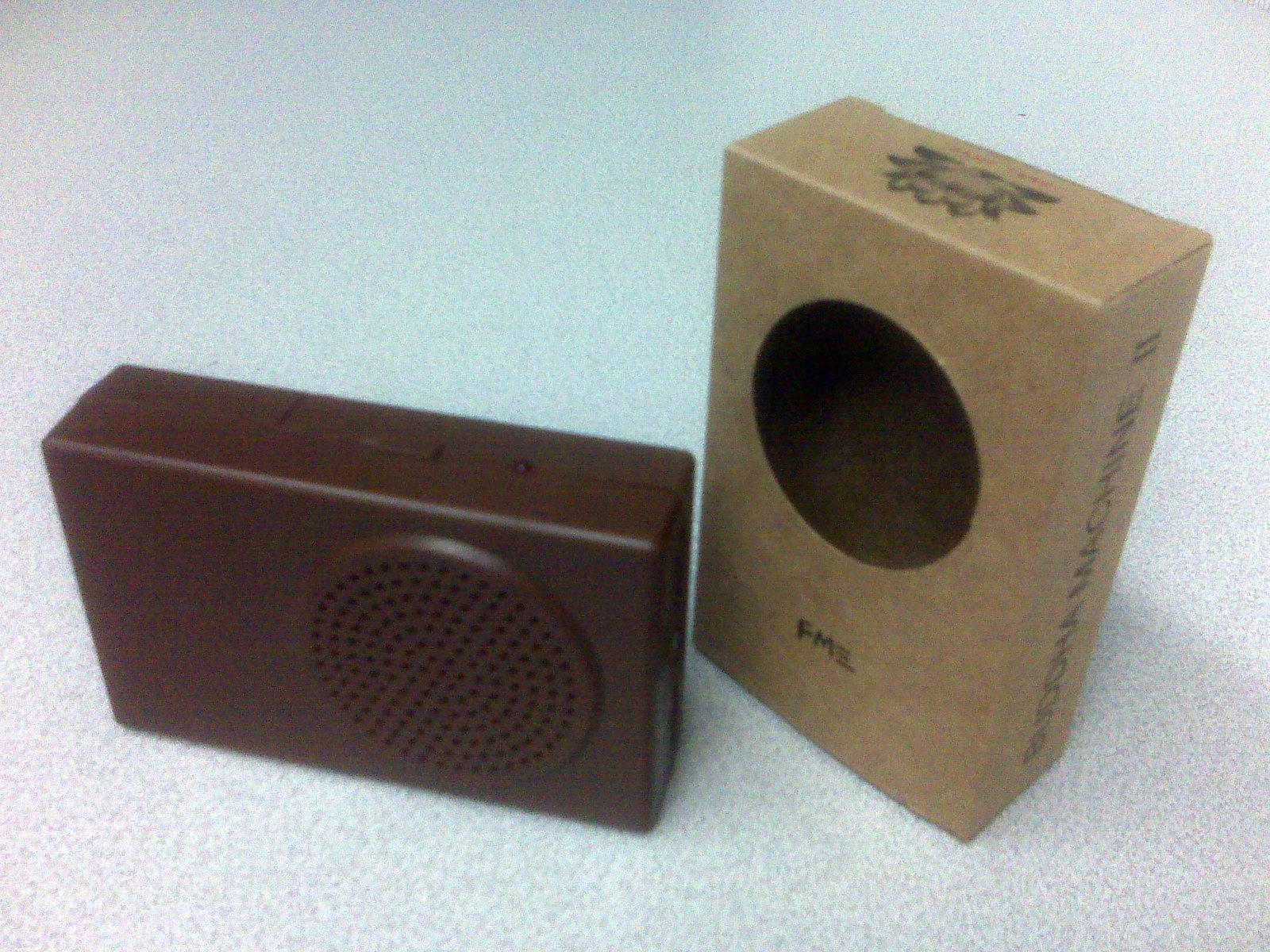 Buddha Machine 2.0 Version 2 has a pitch control so you can speed up or slow down the loops. It's nice. Build quality on this version isn't as good as the first one though.